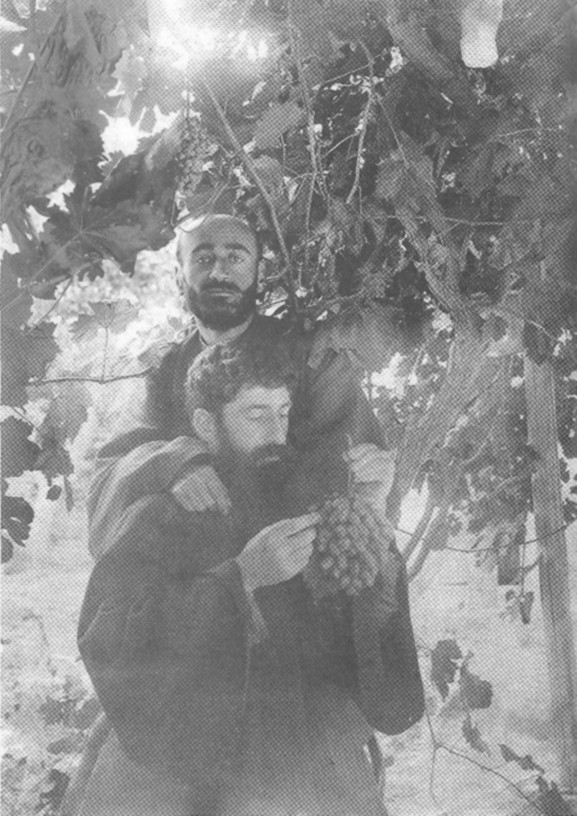 Komitas Vardapet in Ejmiatsin, 1901